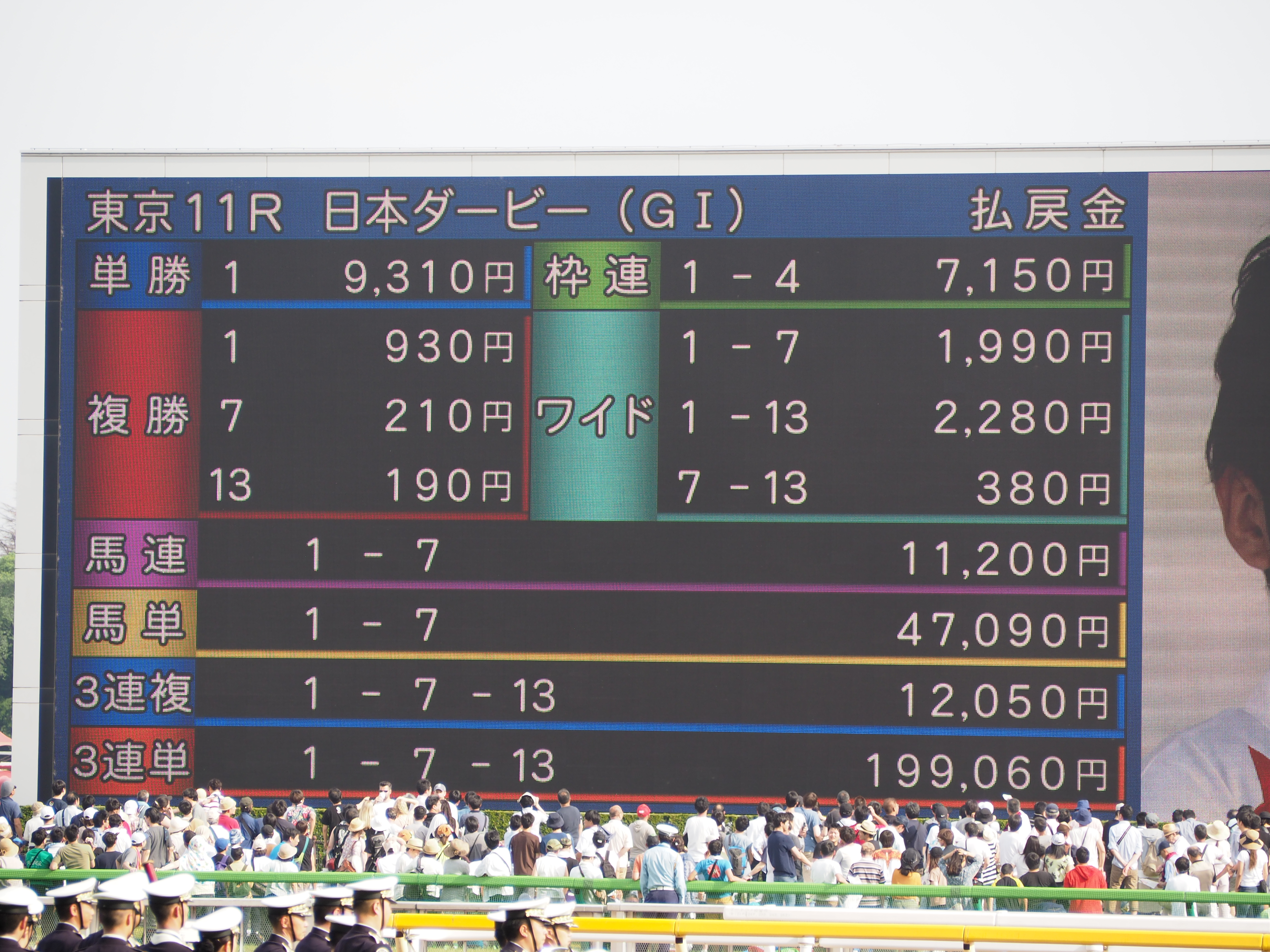 Derby winner roger barows and suguru hamanaka / 86th Tokyo Yushun Japanese Derby 2019 日本ダービー